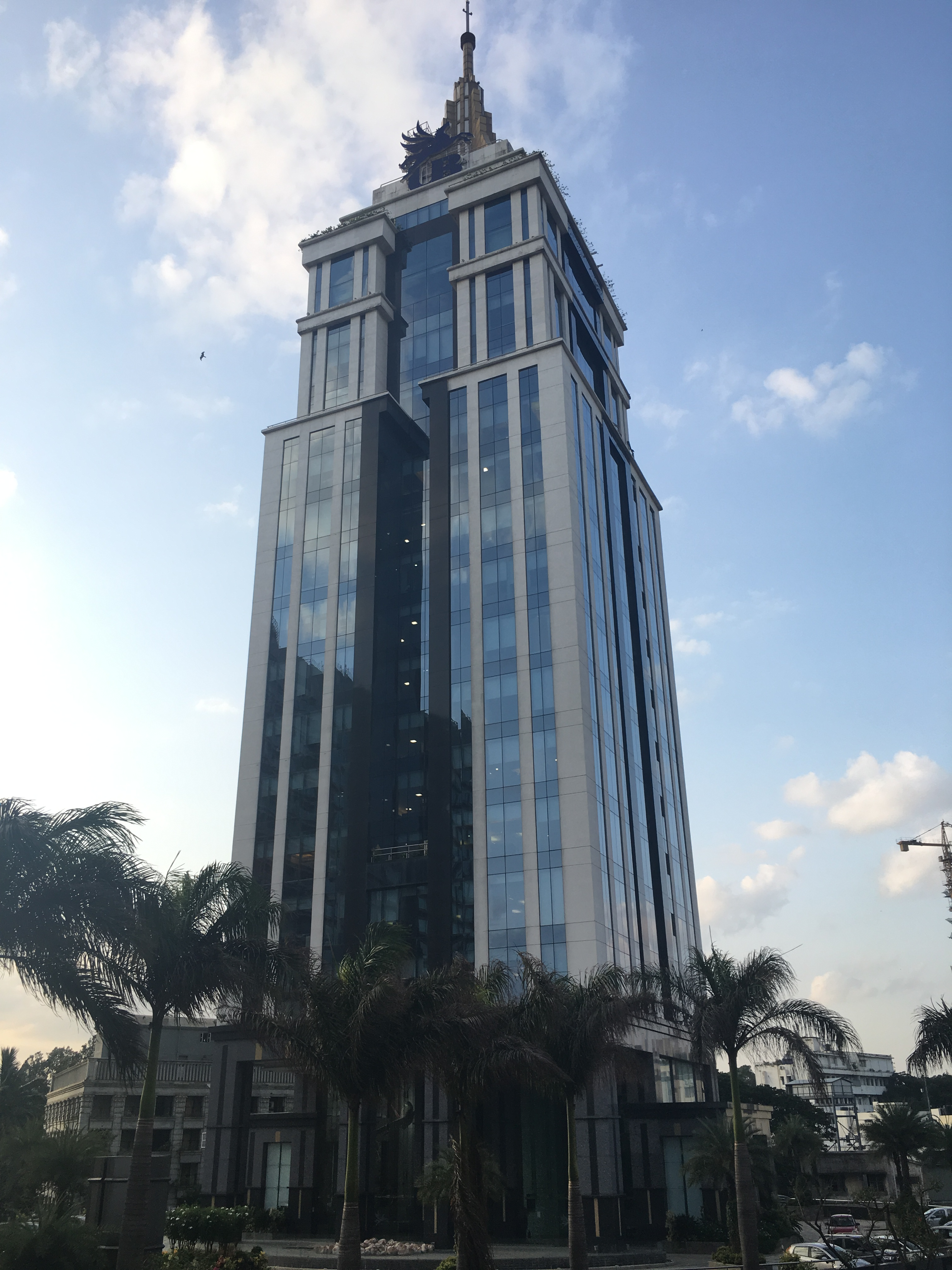 UB tower